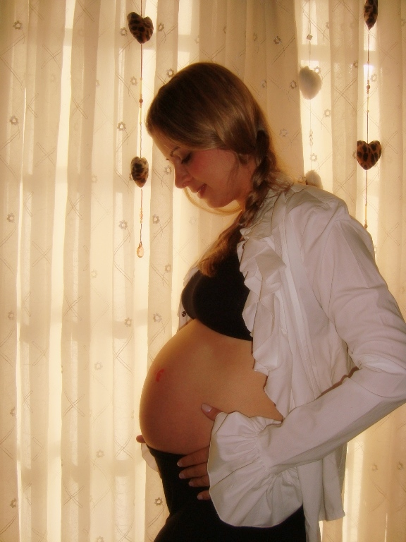 Pregnant women.